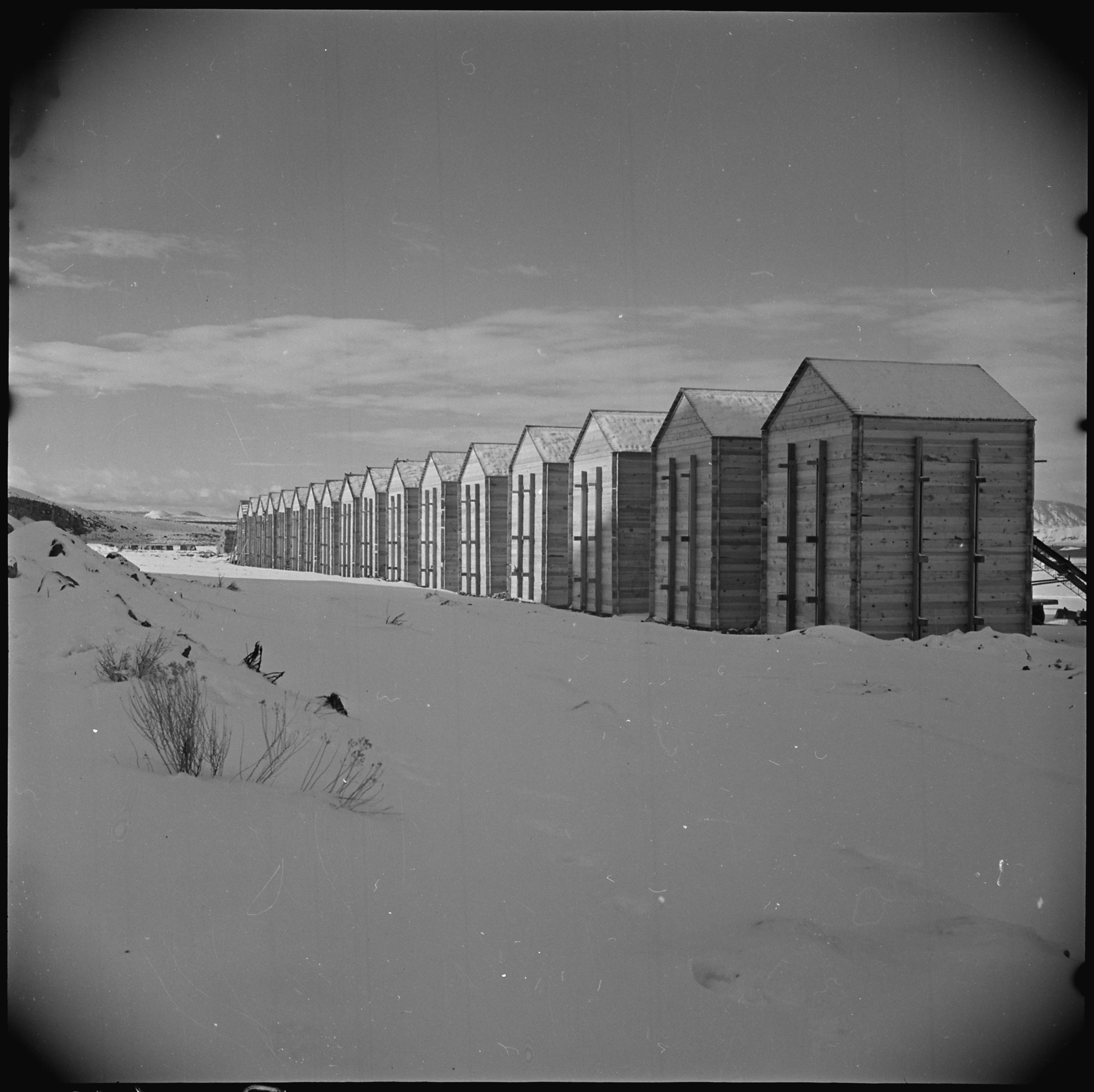 Scope and content: The full caption for this photograph reads: Tule Lake Relocation Center, Newell, California. Granery storage buildings, which are used to store feed for the poultry farm.